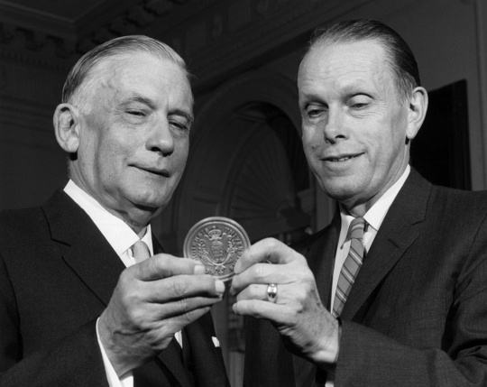 The rector of University of Helsinki, Professor Edwin Linkomies visited USA in October-November 1961, where he aquainted himself with administration system of the universities. In the picture, rector Linkomies presents University of Helsinki's silver medal to the President of University of Wisconsin, Dr. Conrad A. Elvehjem.